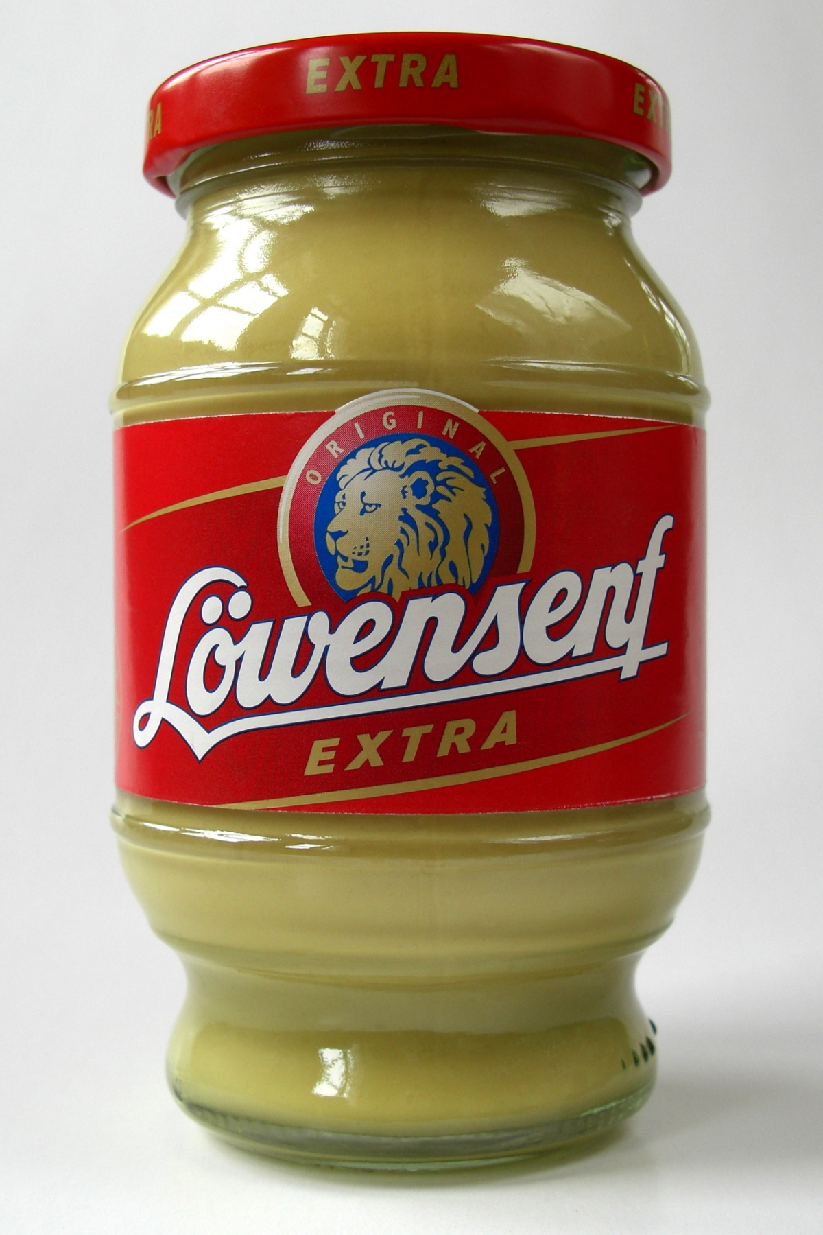 Düsseldorfer Löwensenf. A glass of hot mustard made in Düsseldorf, Germany.